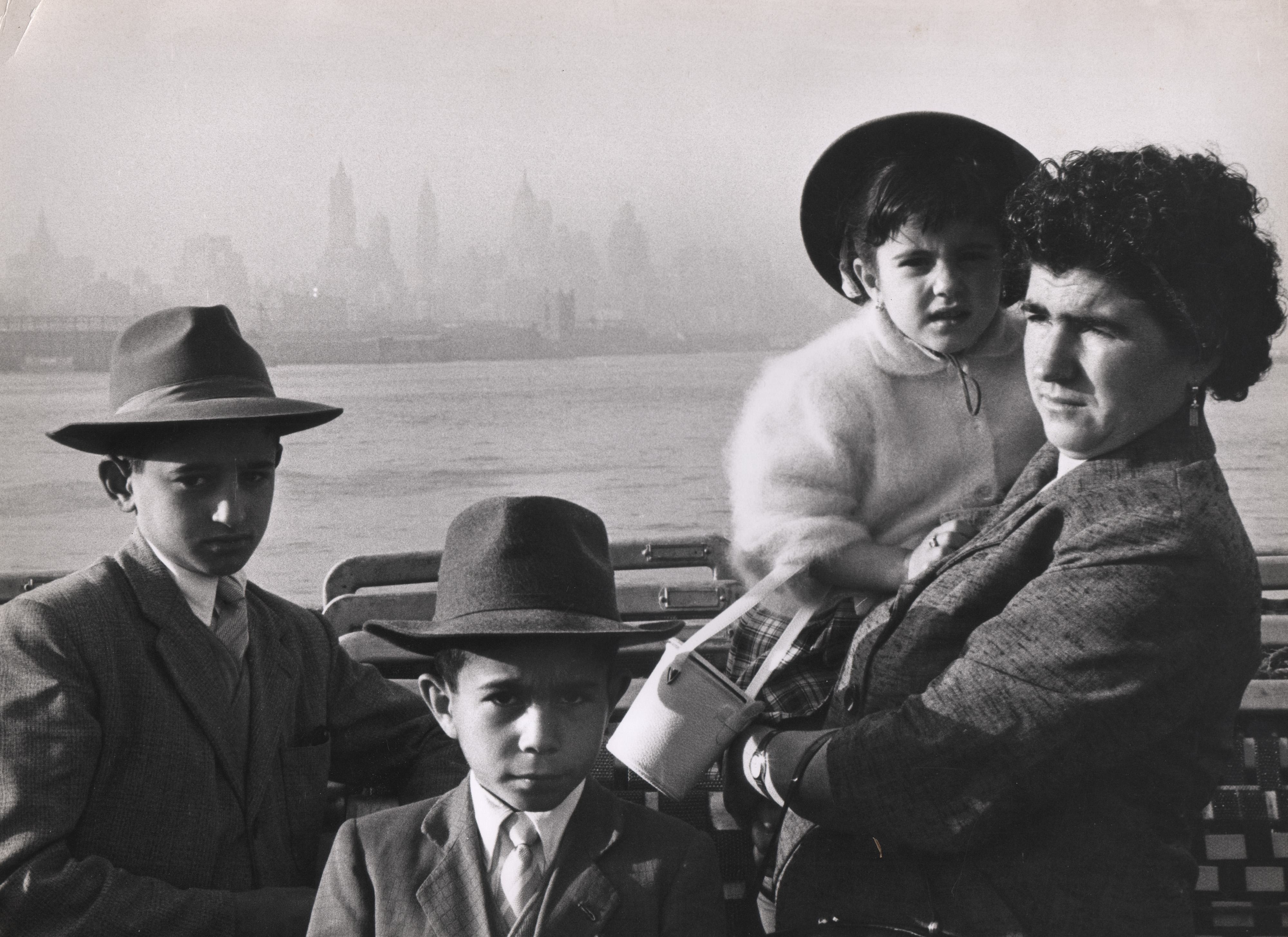 Italian family immigrating to USA